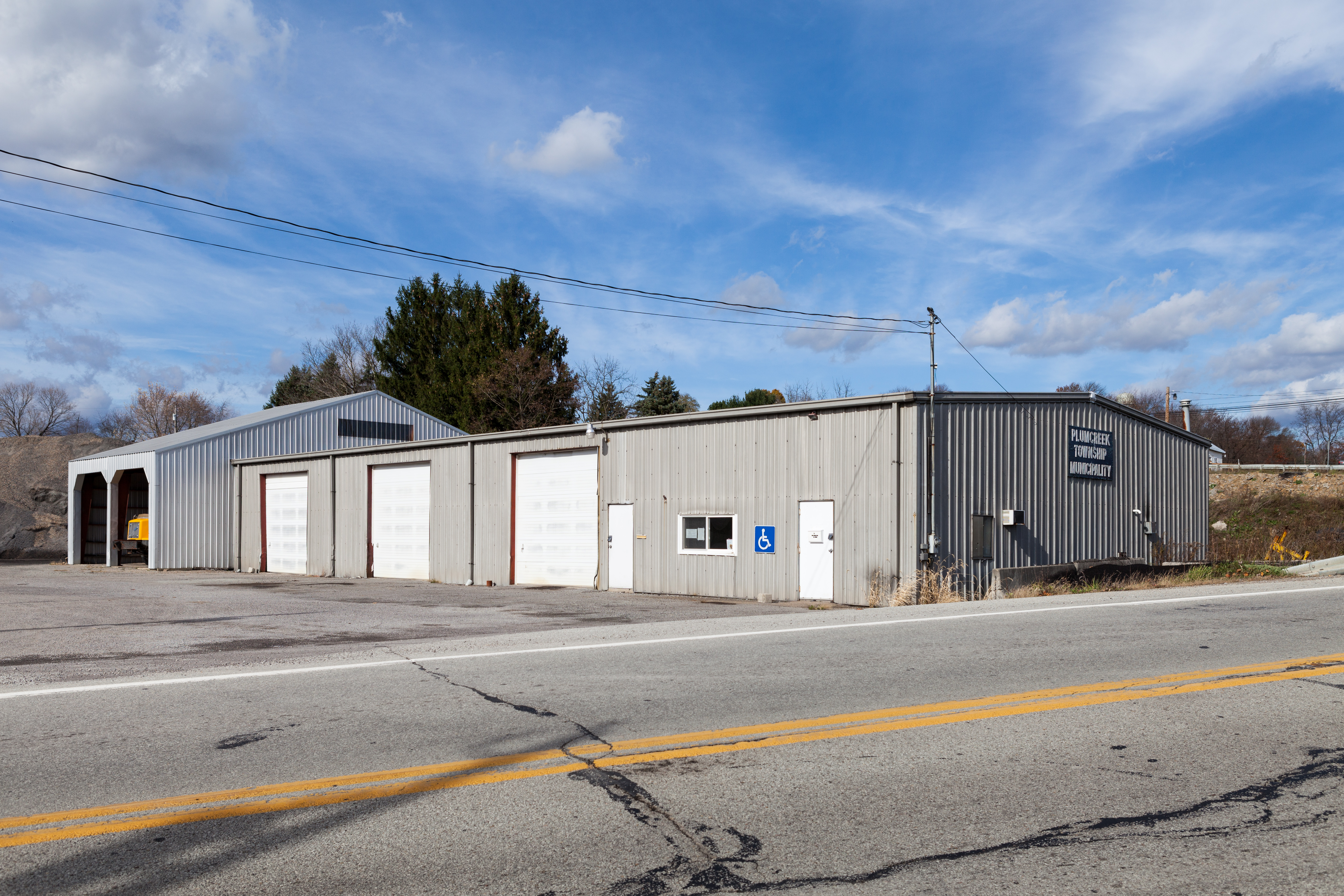 Plumcreek Township Municipal Building at 849 State Route 210